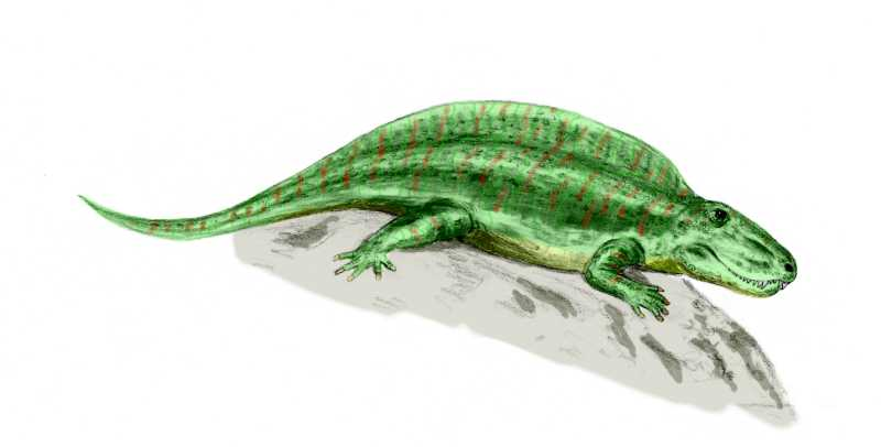 Sphenacodon, pencil drawing and digital coloring